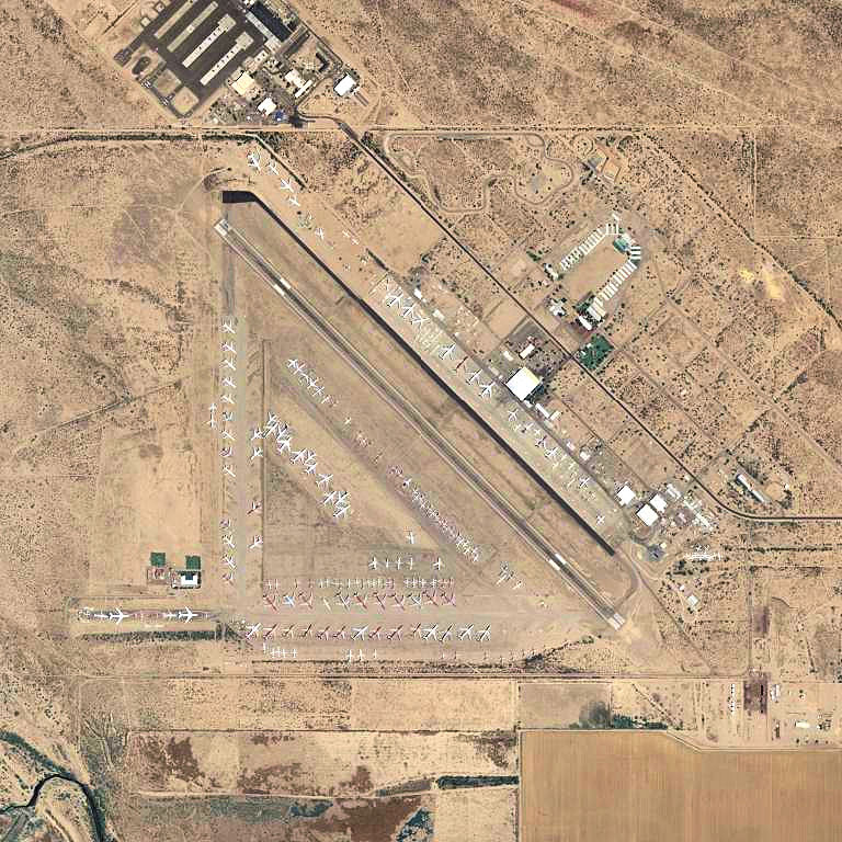 USGS digital orthophoto of Pinal Airpark in Pinal County, Arizona, United States